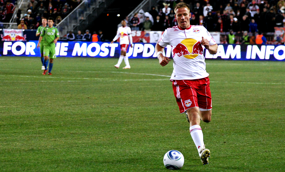 Norwegian footballer Jan Gunnar Solli. Photo: Saturday, March 19, 2011.